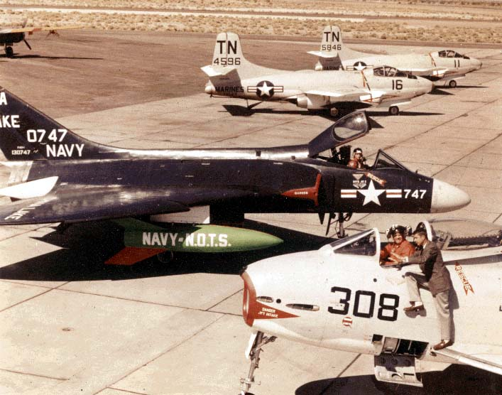 NOTS Project ("NOTSNIK") test shape ready for flight on a Douglas F4D-1 Skyray (BuNo. 130747), Armitage Field, U.S. National Ordnance Test Station, Naval Air Facility China Lake (California, USA), 1958; NOTSNIK, China Lake's crash-program answer to Sputnik, was an air-launched satellite-delivery system built in-house from available components and with no moving parts; six test launches were made, without provable success, but some people believe one was successful and that NOTS launched one of the first U.S. satellites. The Naval Ordnance Test Station (NOTS) was established in November 1943, forming the foundations of the current Naval Weapons Center (NWC). In the background two F3D-2Q Skyknight ECM-aircraft (BuNos 124596, 125846) of Marine composite squadron VMCJ-3 are parked. VMCJ-3 was formed at MCAS El Toro on 12 December 1955 and took delivery of the F3D-2Q in 1957. In 1970 VMCJ-3 retired the last of the F3D-2Q (after 1962 designated EF-10B) from Marine aviation. A North American FJ-4 Fury is visible in the foreground, and the wing of a JD-1 Invader is visible in the background.